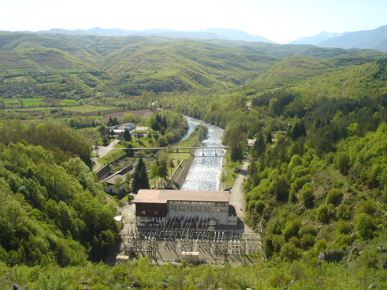 Hydroelectric power plant Spilje, Macedonia